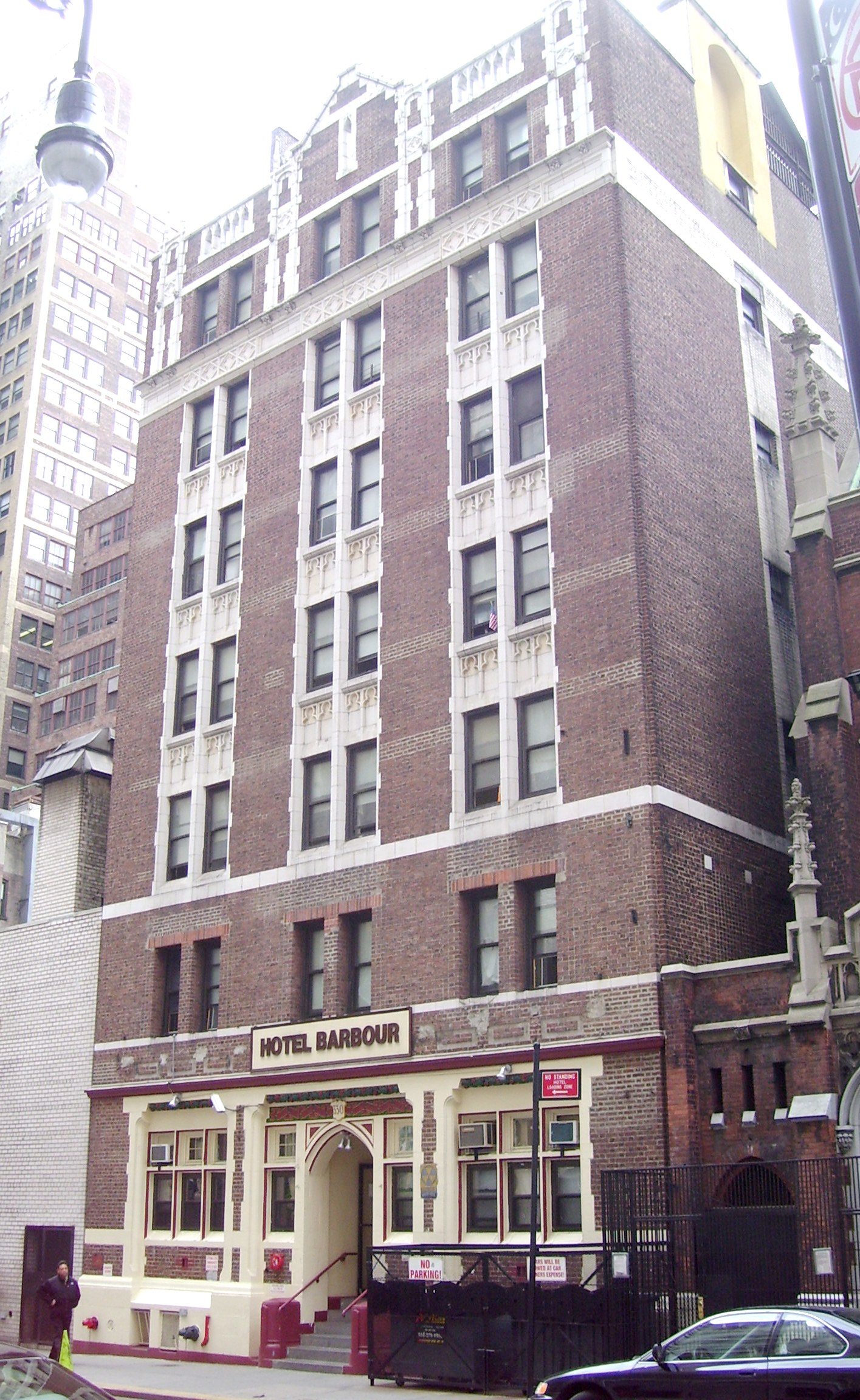 The Hotel Barbour at 330 West 36th Street between 8th and 9th Avenues in the Garment District of Manhattan, New York City was built c.1920. The hotel is used as a transitional housing facility for people with HIV/AIDS, and is operated by Praxis Housing Initiatives. (Source: GIS map, and "Homeless Services" on the website)